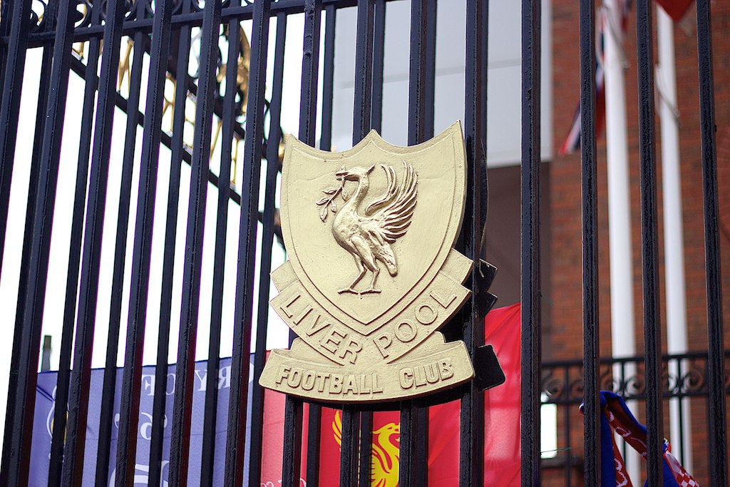 Liverpool crest on the Shankly Gates